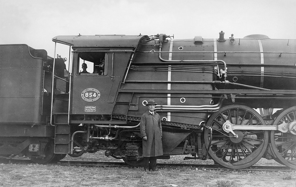 SAR Class 16E 854 (4-6-2) The designer of the Class 16E with his greatest creation - A.G. Watson, SAR Chief Mechanical Engineer from 1929 to 1936